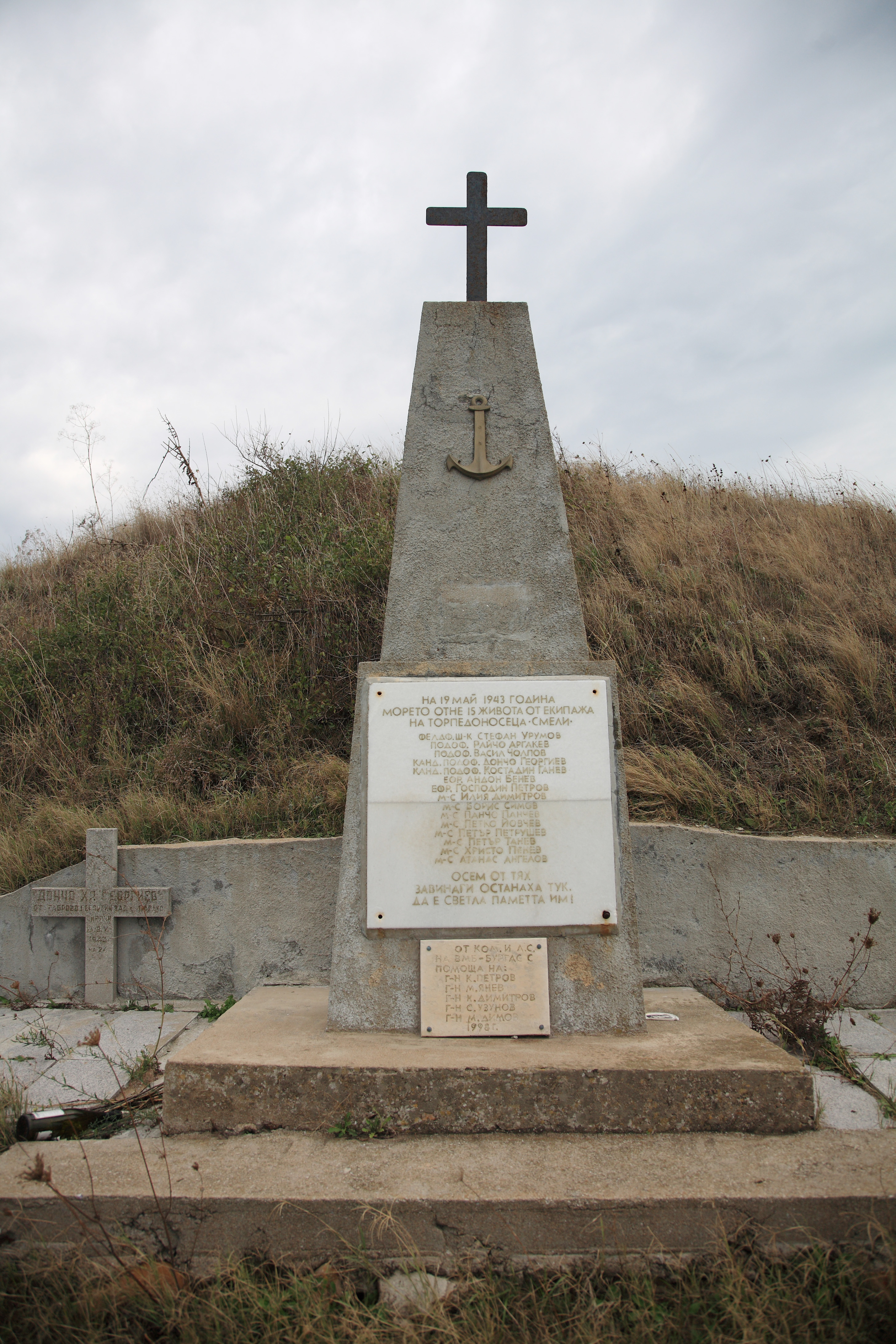 Memorial to the seamen, who have died at cape Akin, Bulgaria